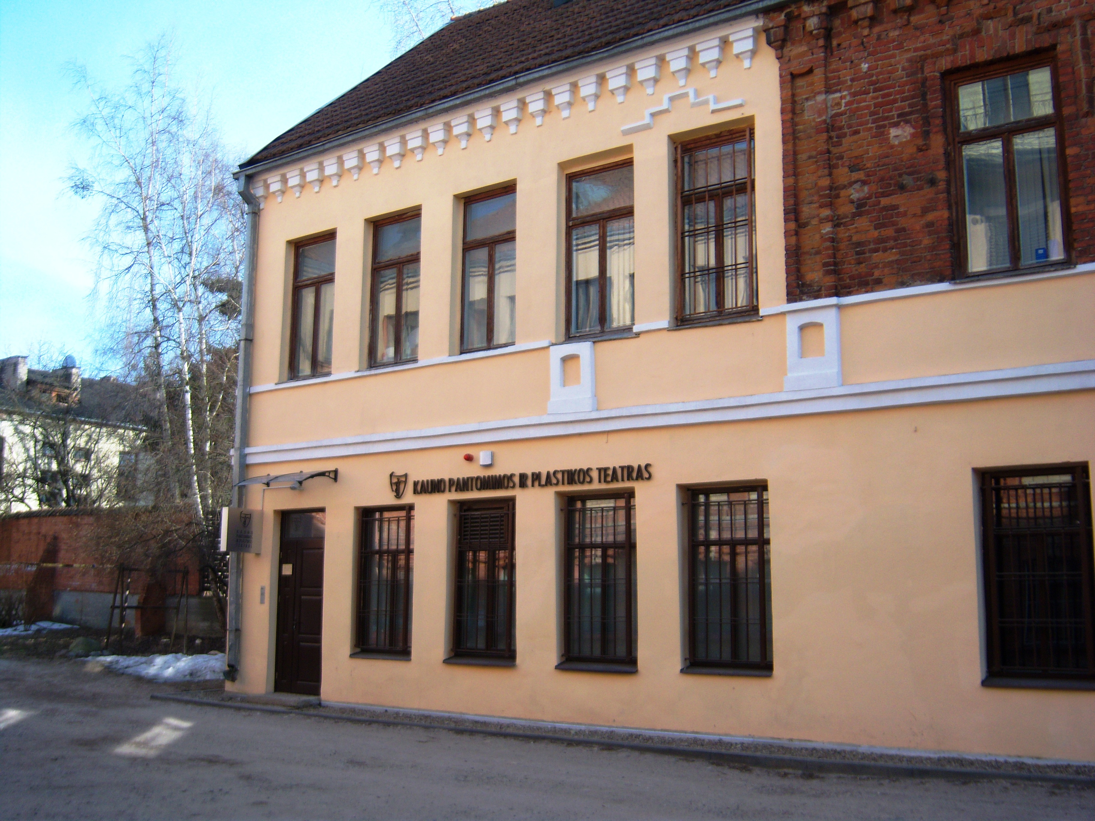 Pantomime Theater, Kaunas, Lithuania